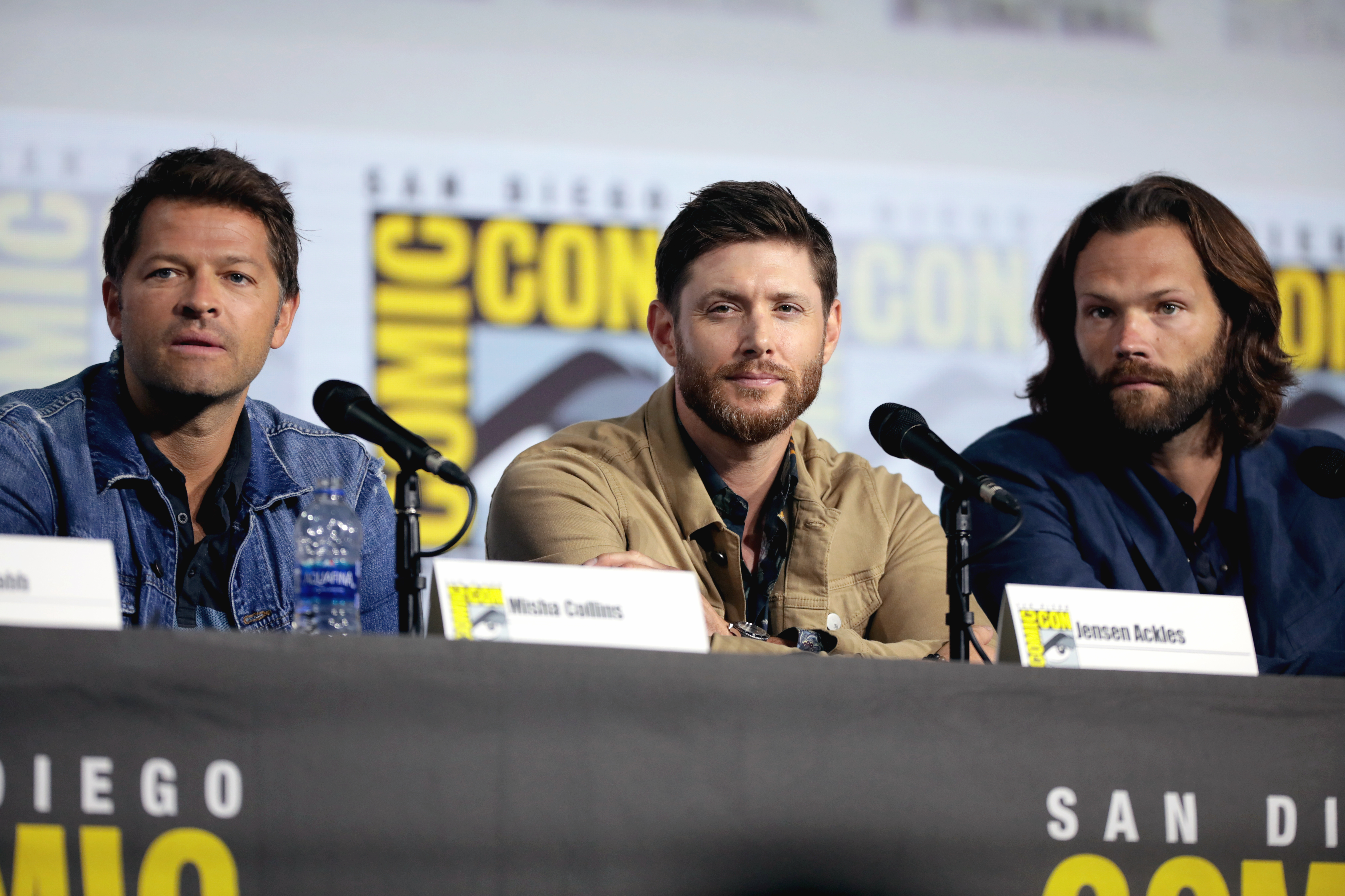 Misha Collins, Jensen Ackles and Jared Padalecki speaking at the 2019 San Diego Comic Con International, for "Supernatural", at the San Diego Convention Center in San Diego, California.